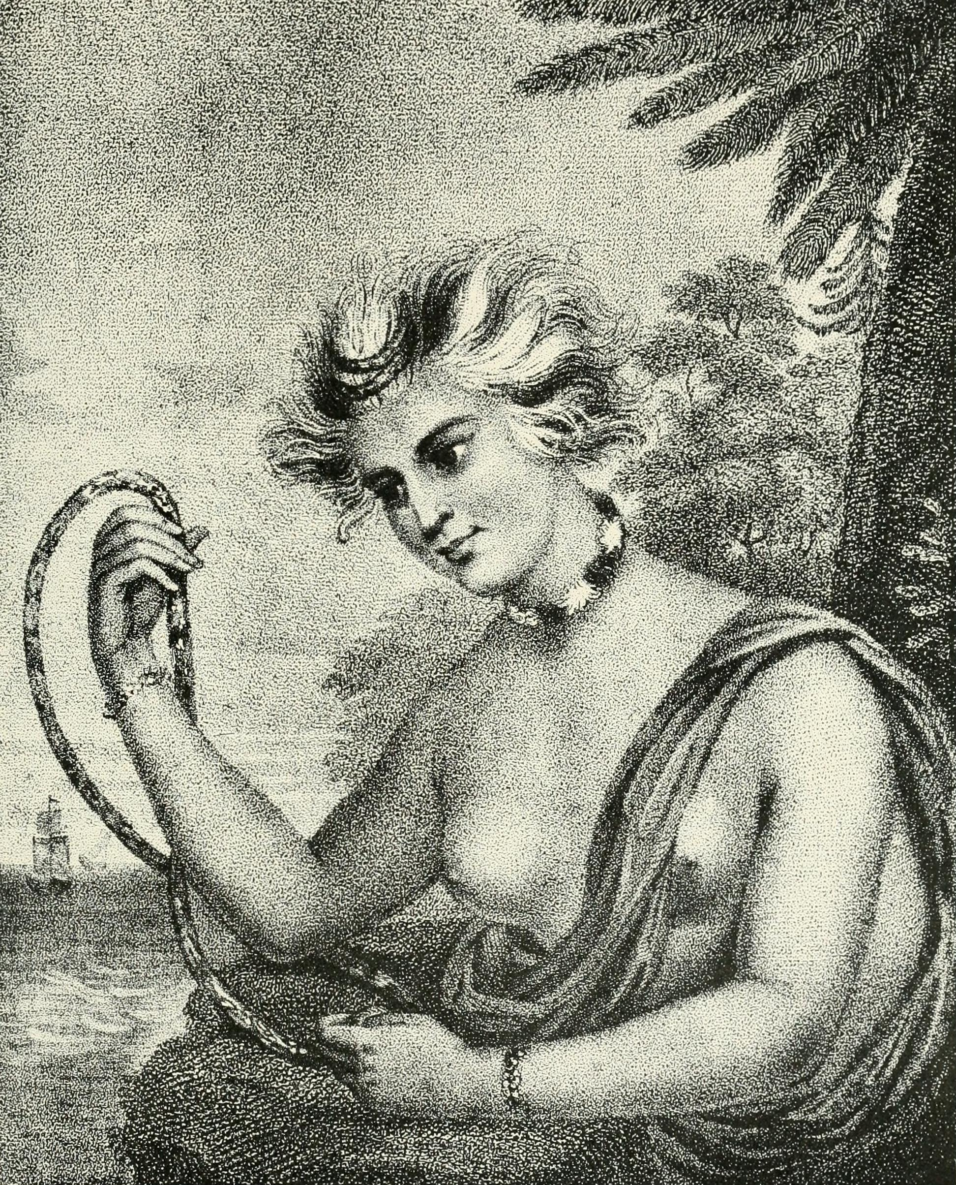 Wynee, a Native of Owyhee, one of the Sandwich Islands. This fine engraving of a Woman of the Hawaiian Islands was sketched by a member of Captain John Meares' crew during his voyages to America's Pacific Northwest, China and Hawaii in the years 1786, 1788 and 1789. Wynee went to the Pacific Northwest aboard the British ship Imperial Eagle as the servant of wife of the ship's captain Charles Barkley. She was left in Canton where she decided to return to Hawaii aboard Captain John Meares's ship with fellow Hawaiian Kaiana, but she died of illness on the voyage on February 5, 1788.